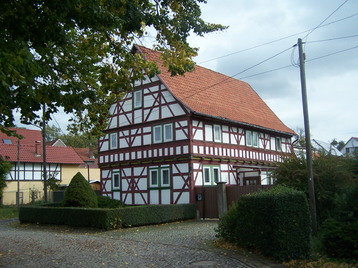 A listed timber framed house in Grossenlupnitz.